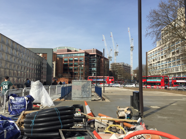 Elephant and Castle remodelling, east side, Newington, south London